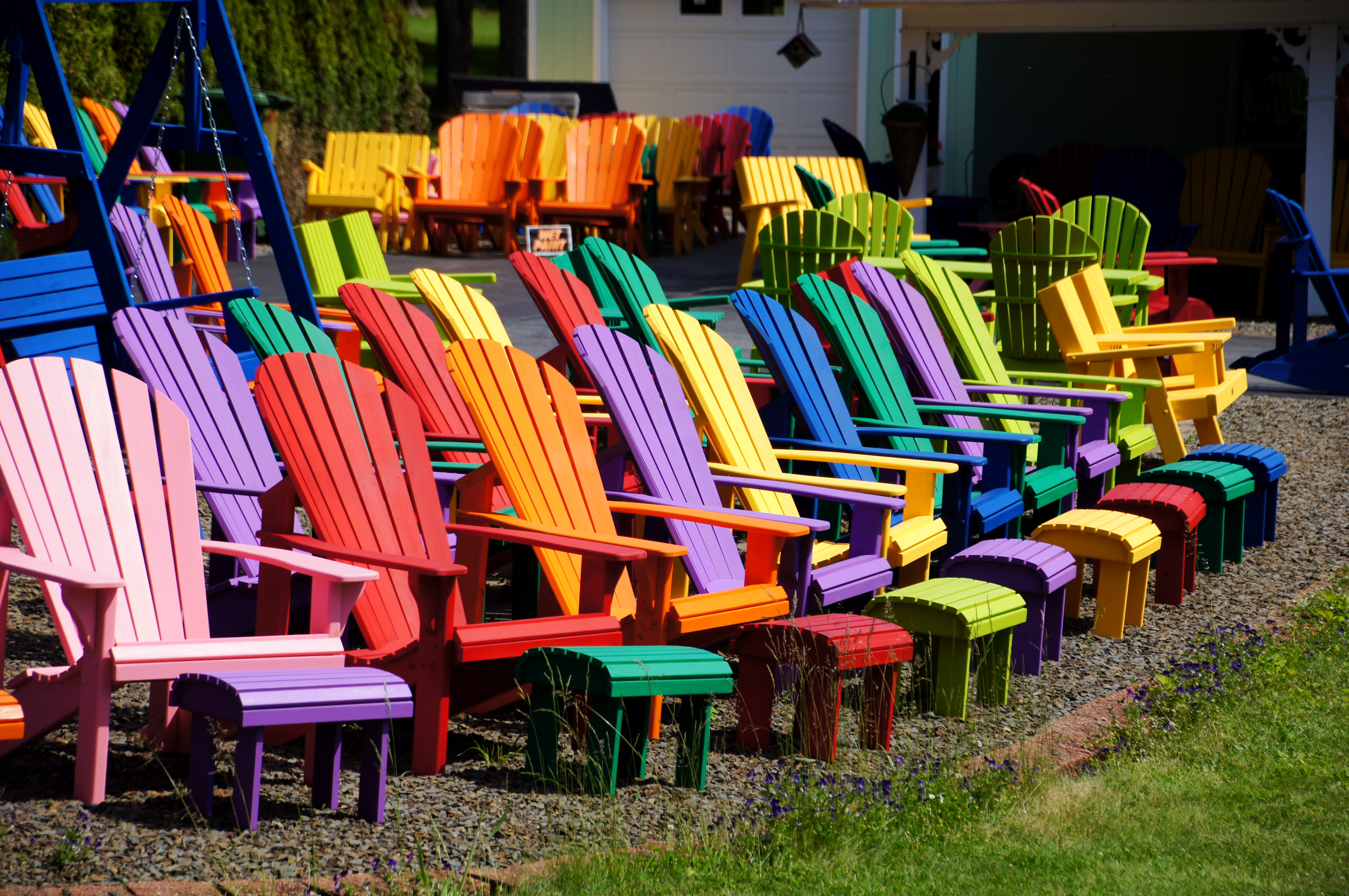 Adirondack chairs for sale in Lunenburg County, Nova Scotia, Canada